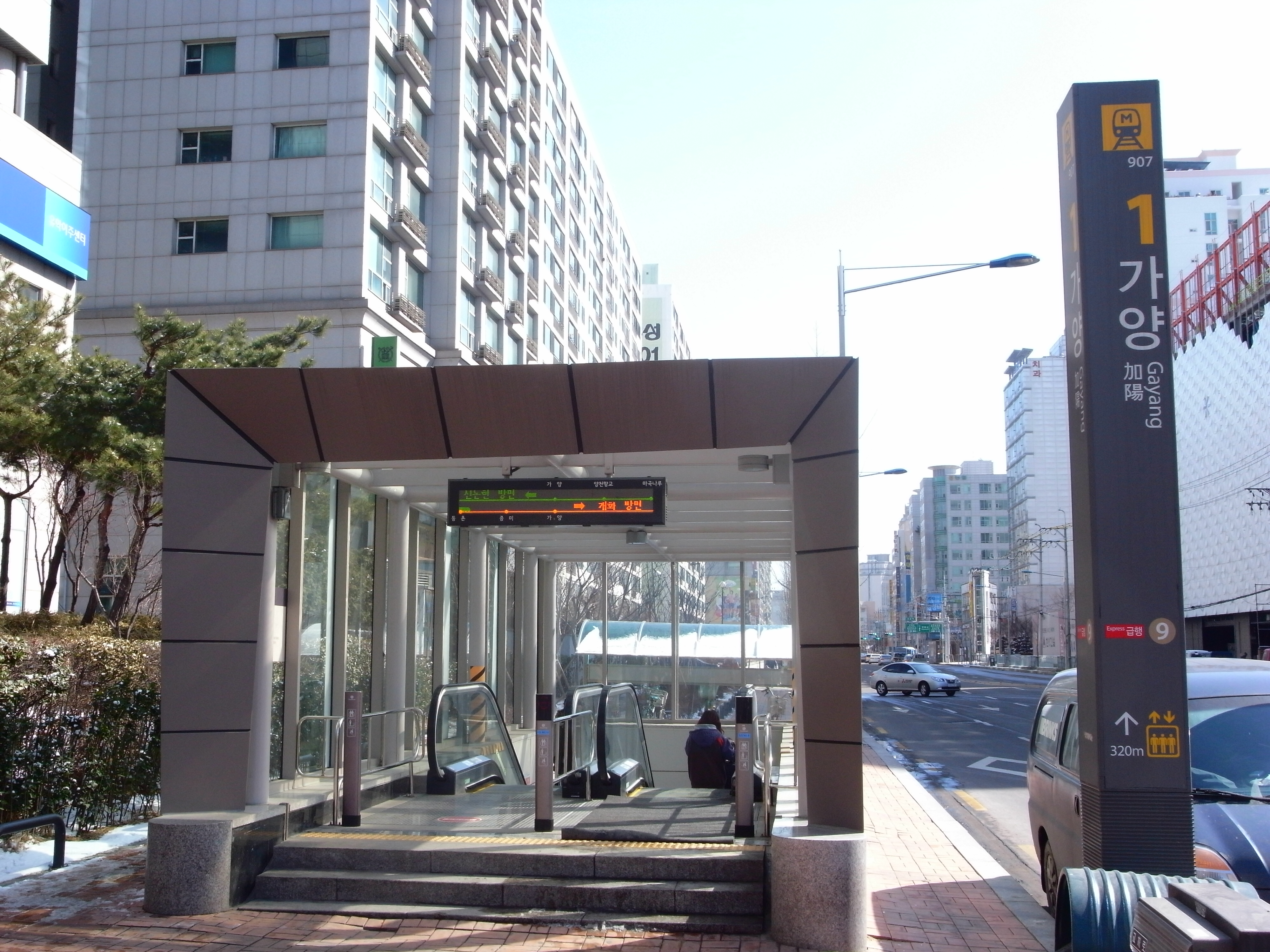 Gayang Station Line9 Exit No.1